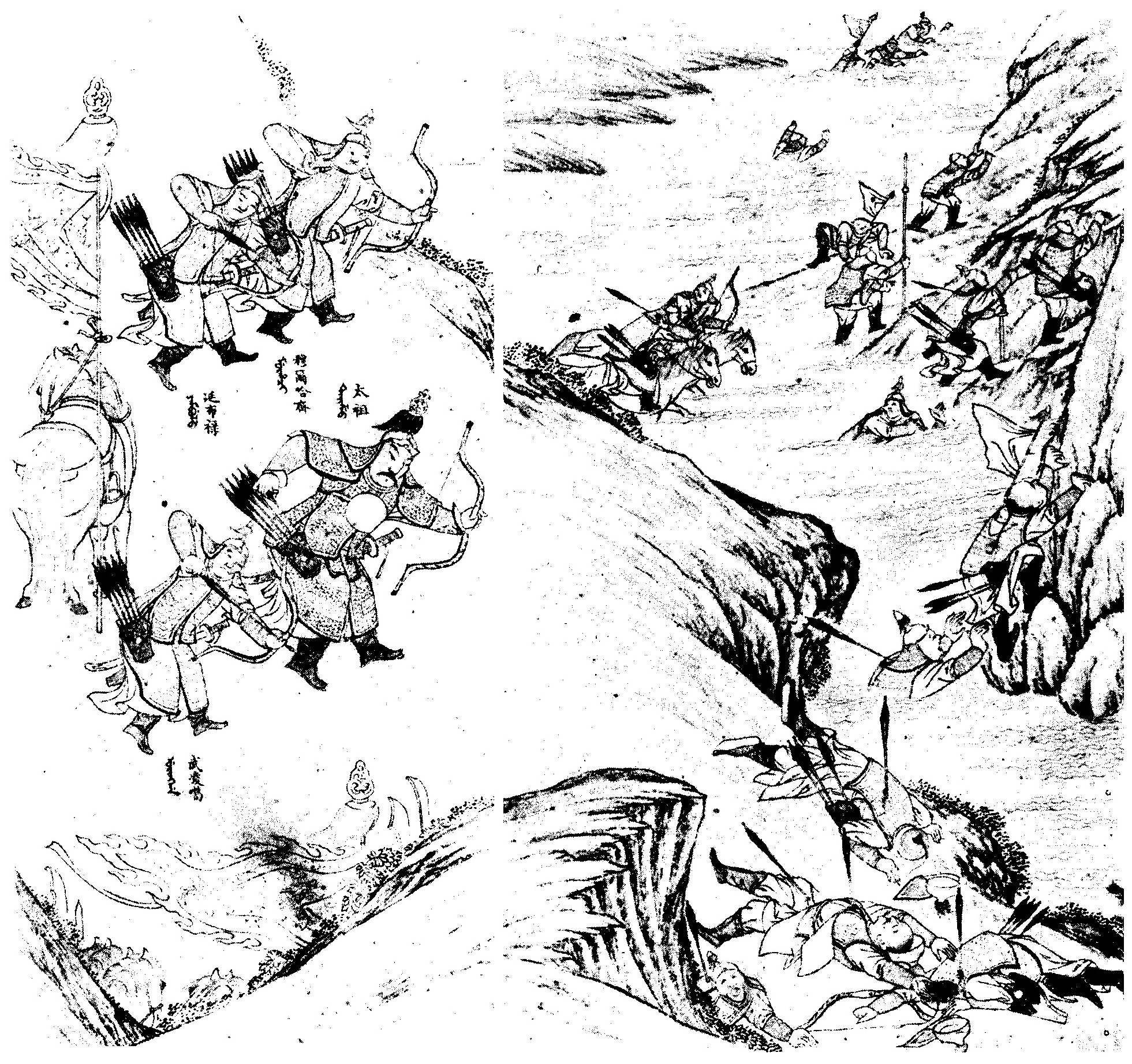 弩尔哈齐四騎敗八百兵